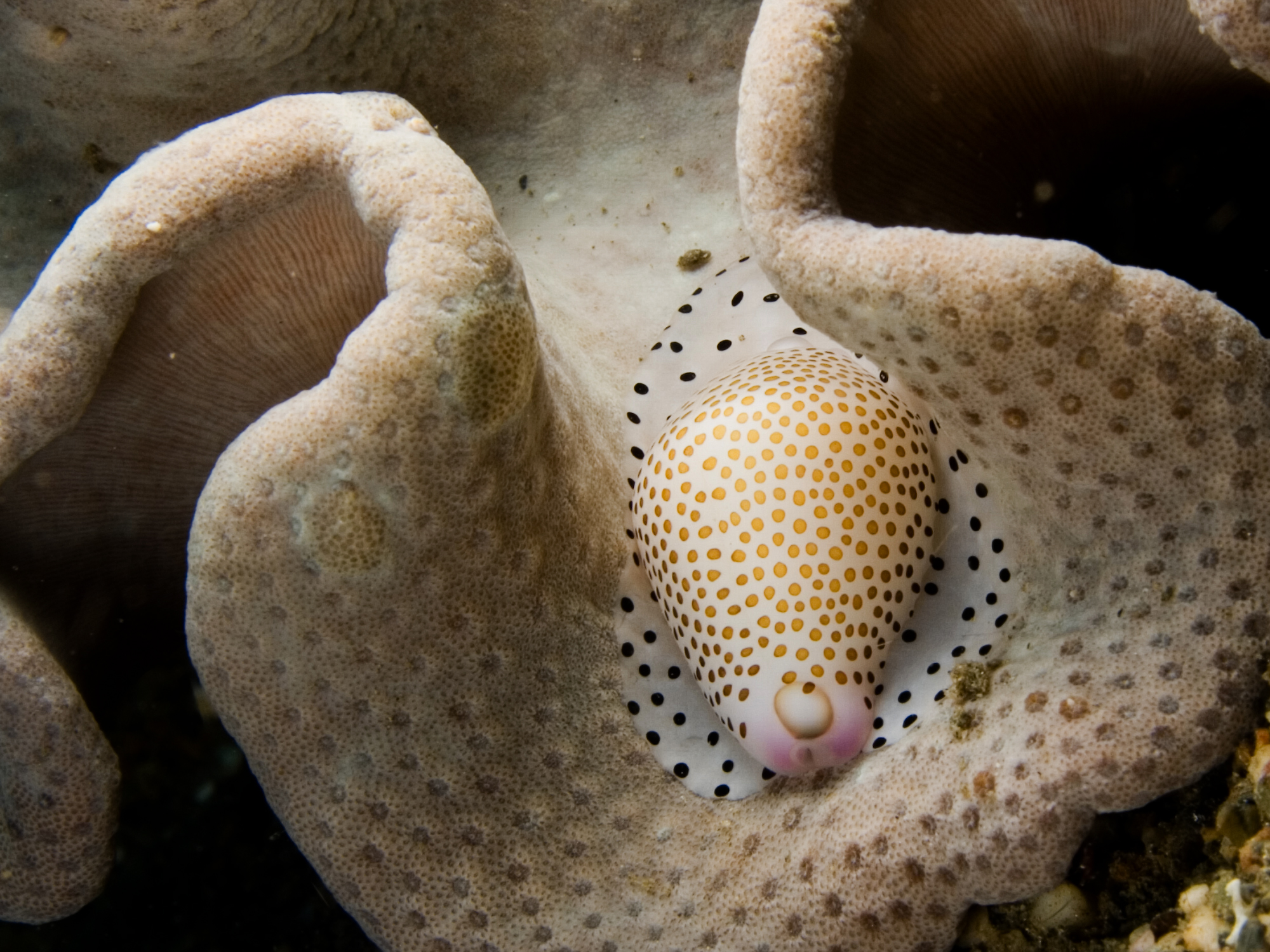 Calpurnus verrucosus cowry in a Sacrophyton sp. mushroom leather coral, a primary source of food.